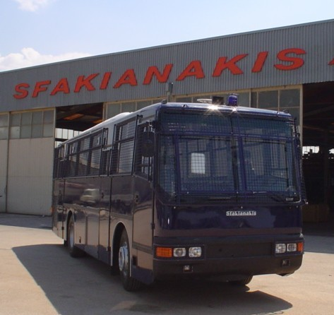 A photograph of a Sfakianakis Police Bus taken in front of the factory in 2004.